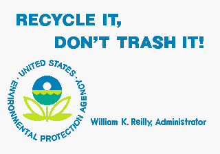 "Recycle It, Don't Trash It!" screen display in arcade game.